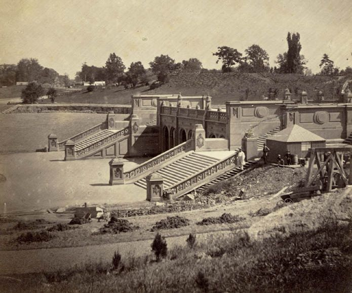 Crop of File:Central Park 1862.jpg showing a photograph of Bethesda Terrace and Fountain, Central Park taken by Victor Prevost in 1862.